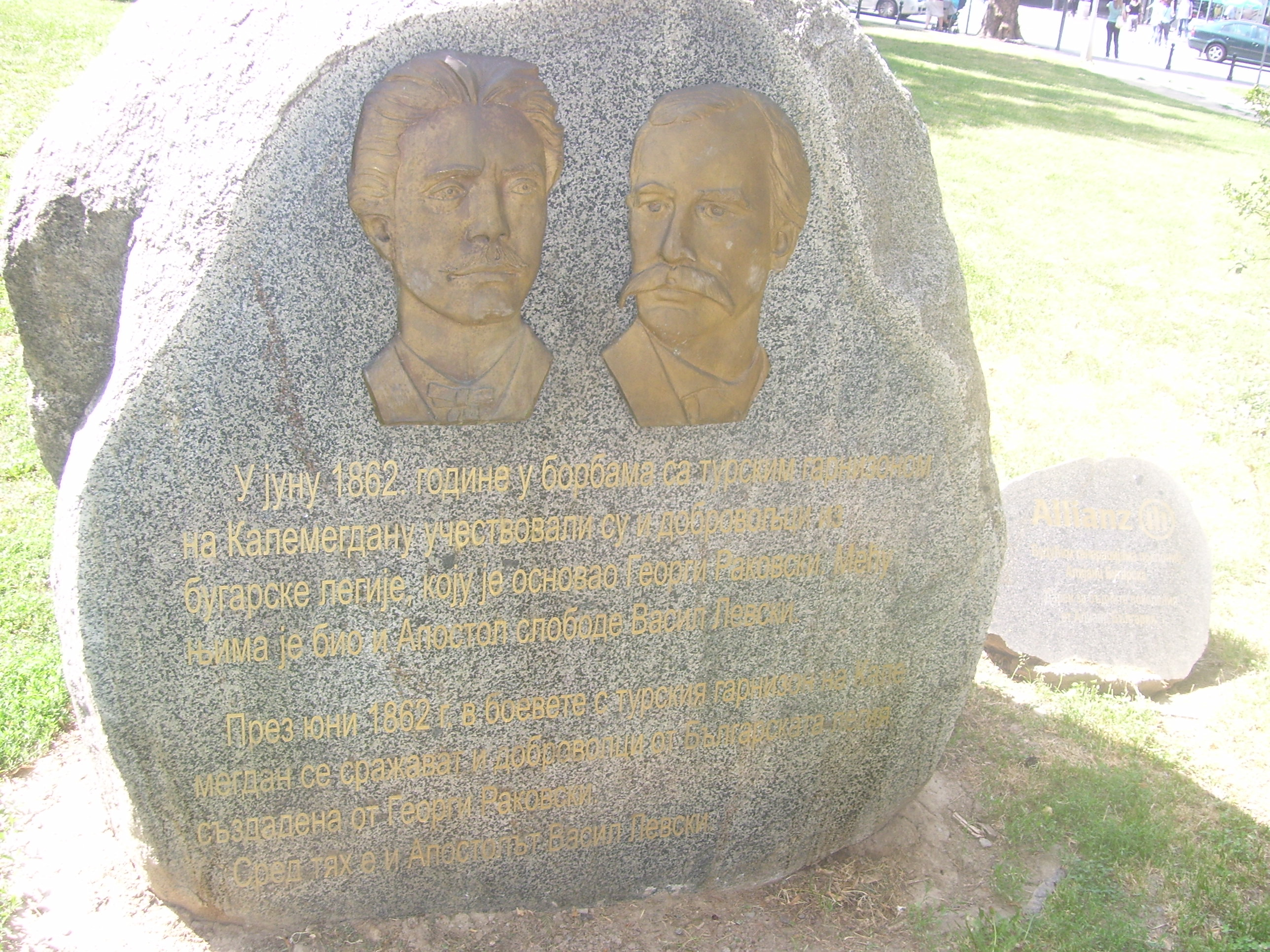 Monument to the Bulgarian legion who fought against Turks in Belgrade. "In June 1862, Bulgarian legion took part in the conflict with Turkish garrison in Kalemegdan. The legion was founded by Georgi Rakovski, and the Apostle of freedom - Vasil Levski was in its ranks.